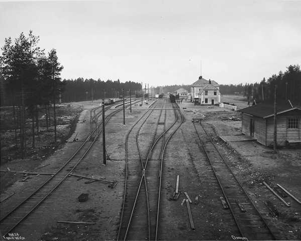 Elverum Station on the Røros and Solør Line in Elverum, Norway